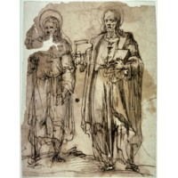 Andrea Sabbatini or Andrea da Salerno, Two Saints, 16th century Pen and brown ink on laid paper mounted to a heavier sheet. San Francisco Museum of Fine Arts.